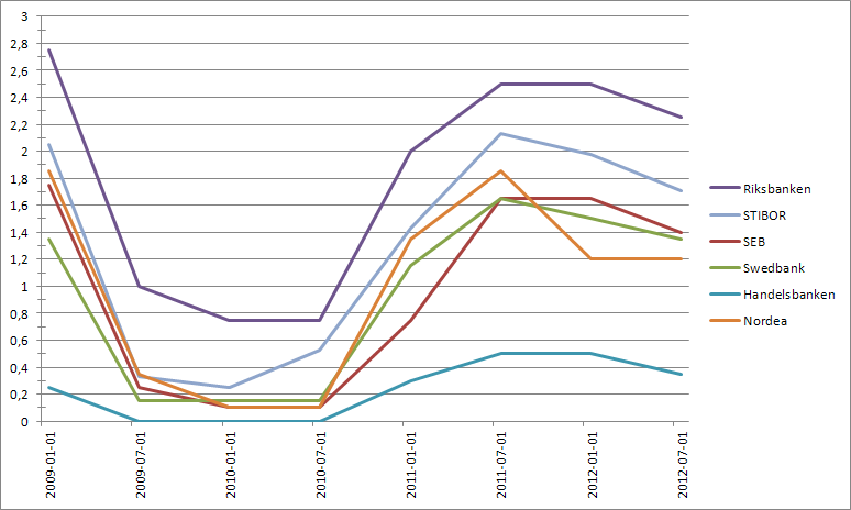 Comparison between interest rates for savings accounts for the "big four" banks in Sweden as well as STIBOR interest rate and Riksbankens interest rate for lending money. Period between 2009-01-01 to 2012-07-01